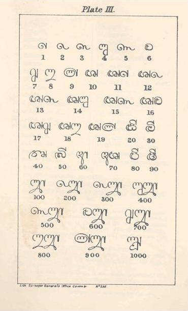 Mendia Gunesekera (1891)